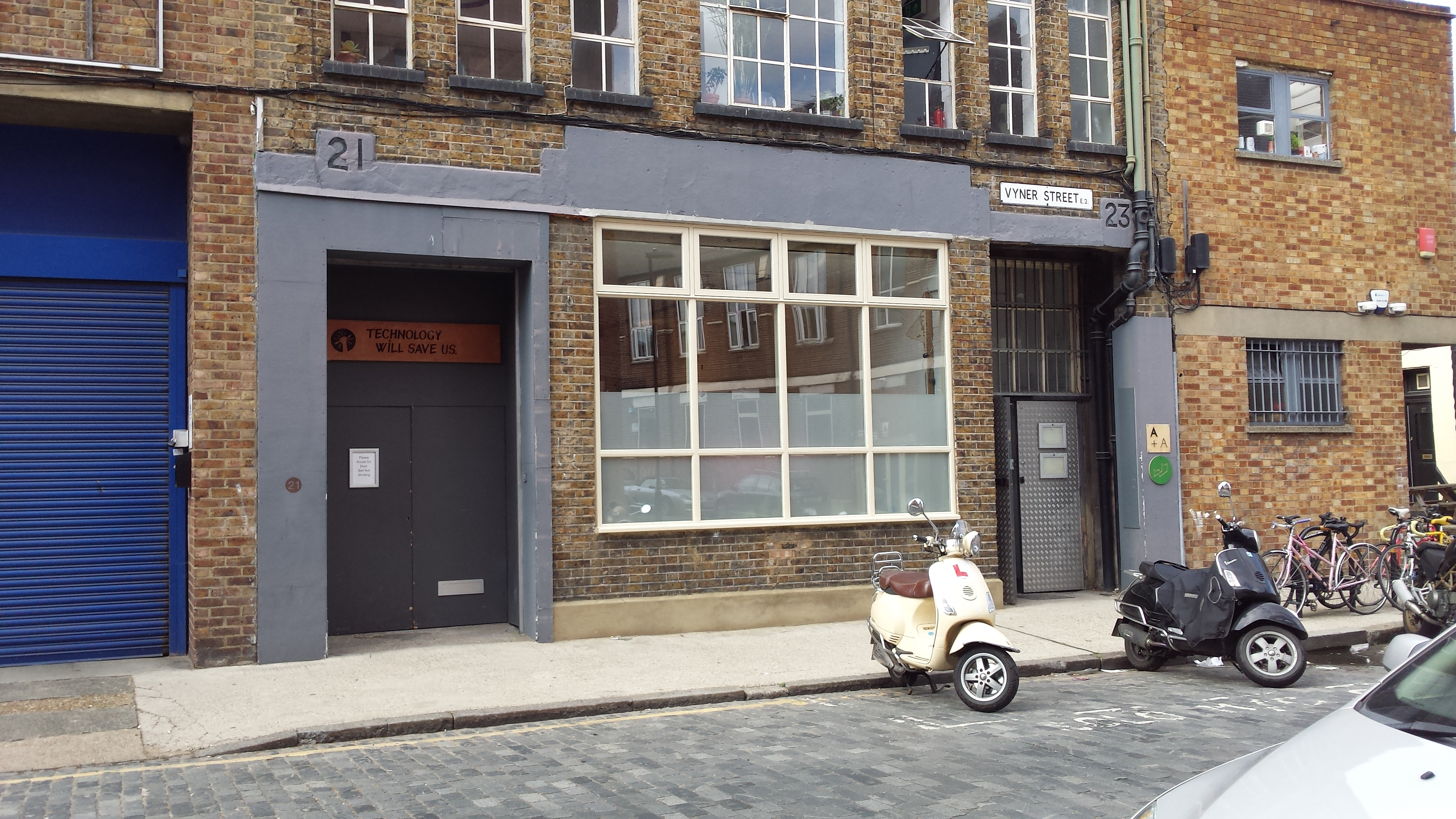 Area surrounding 244 Cambridge Heath Road, London